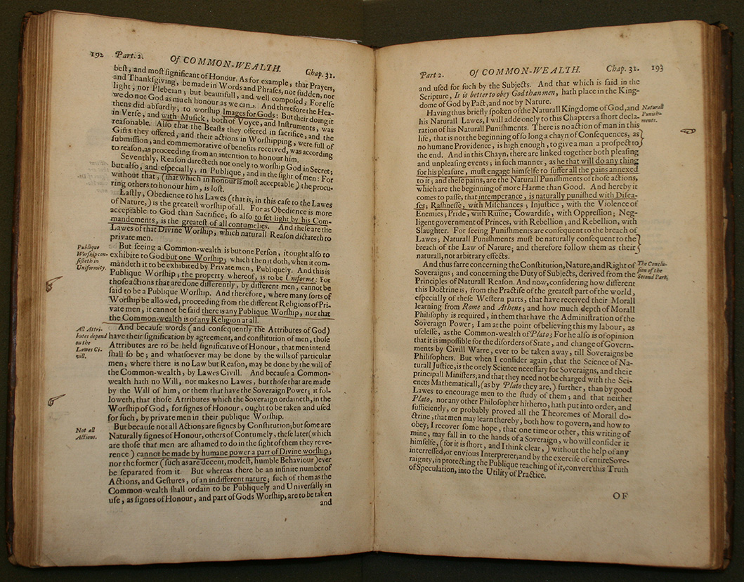 A previous owner of our 1st edition of Hobbes' 'Leviathan' helpfully drew hands pointing to the important bits.